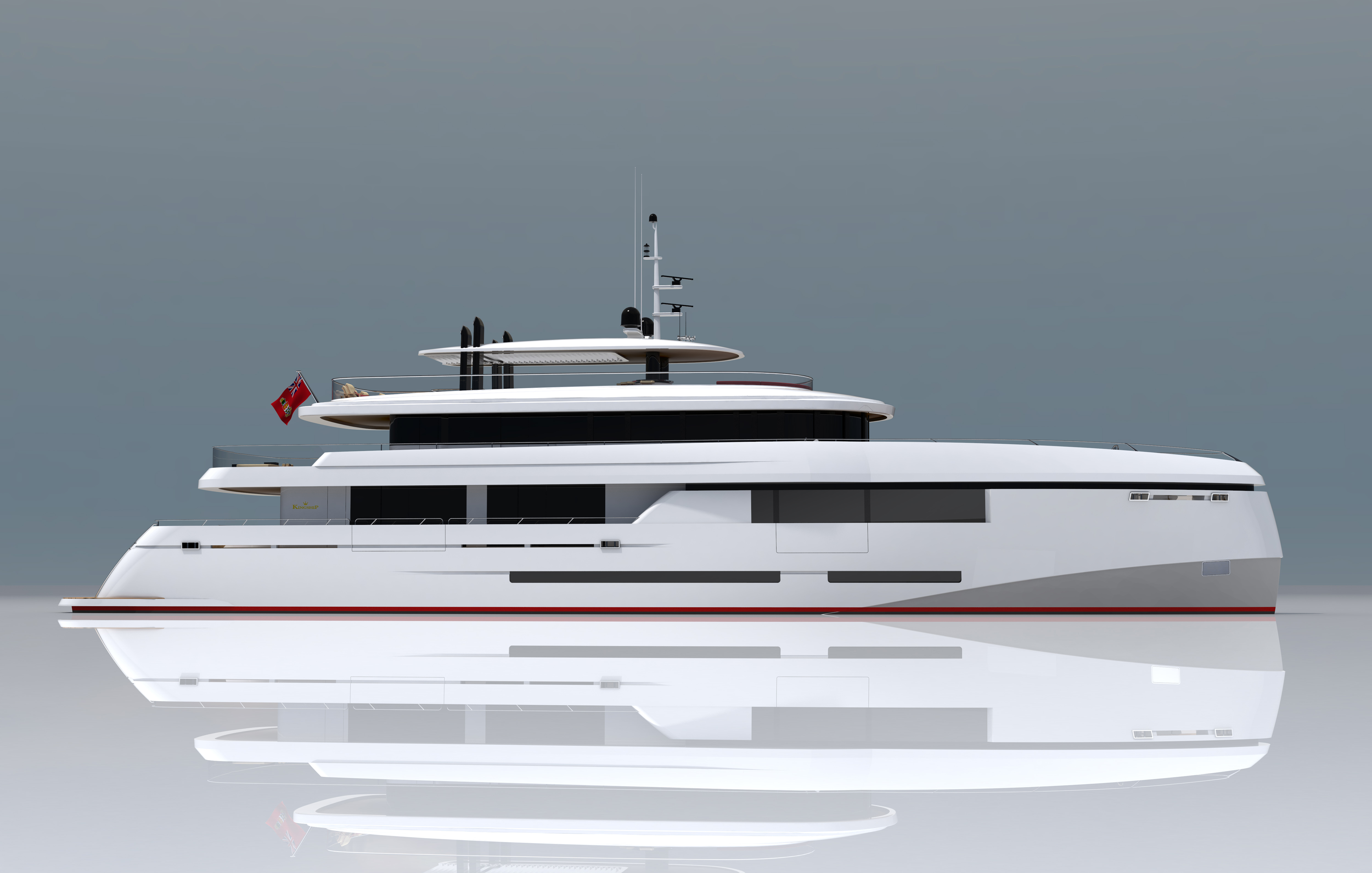 Green Voyager Profile Exterior Styling: Axis Group Yacht Design srl Engineering: Axis Group Yacht Design srl Interior Design: Kingship Length overall : 44 m / 144 ft Beam : 8.8 m /28 ft Draft : 2.5 m / 8 ft Speed : 16.5 knots max (half load) Propulsion : Caterpillar Diesel Engines 2 x C32 1450 bhp@2300 rpm 1081 Kw